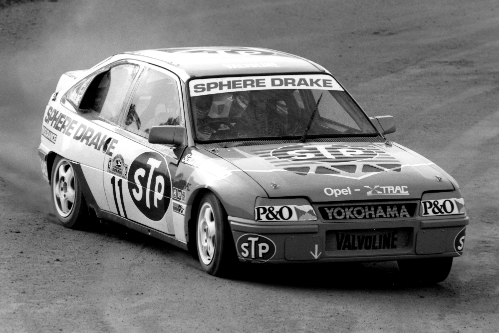 Briton John Welch and his 600+bhp Opel Kadett GSi T16 4x4 pictured during the Spanish round of the 1988 European Rallycross Championship at Sils near Girona.